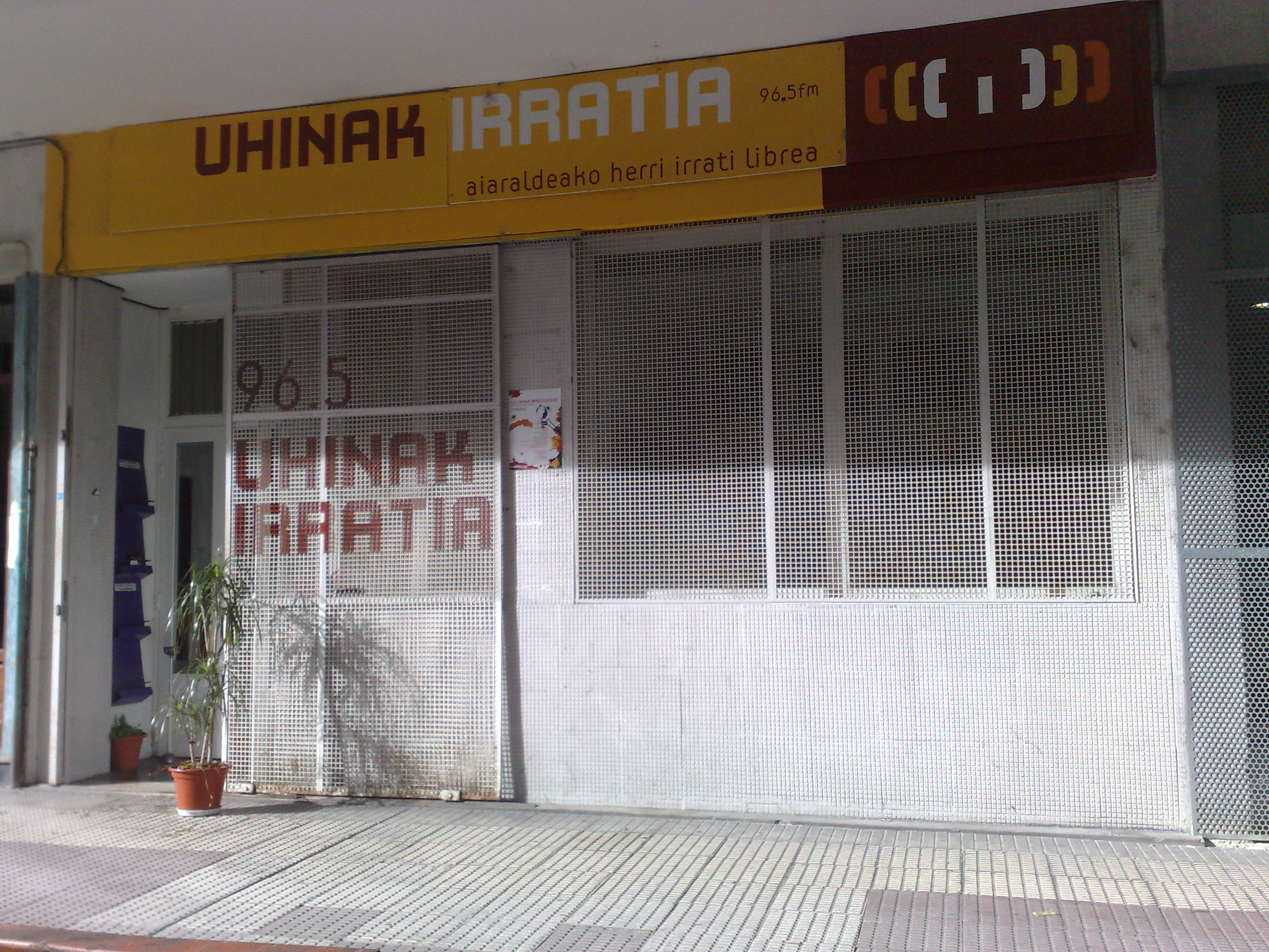 Aiarako Uhinak Radio in Laudio, province of Araba, Basque Country.